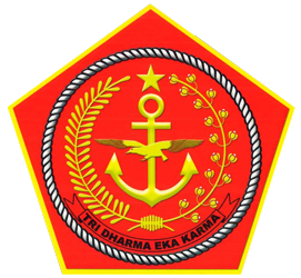 This image is the latest insignia of the Indonesian National Armed Forces